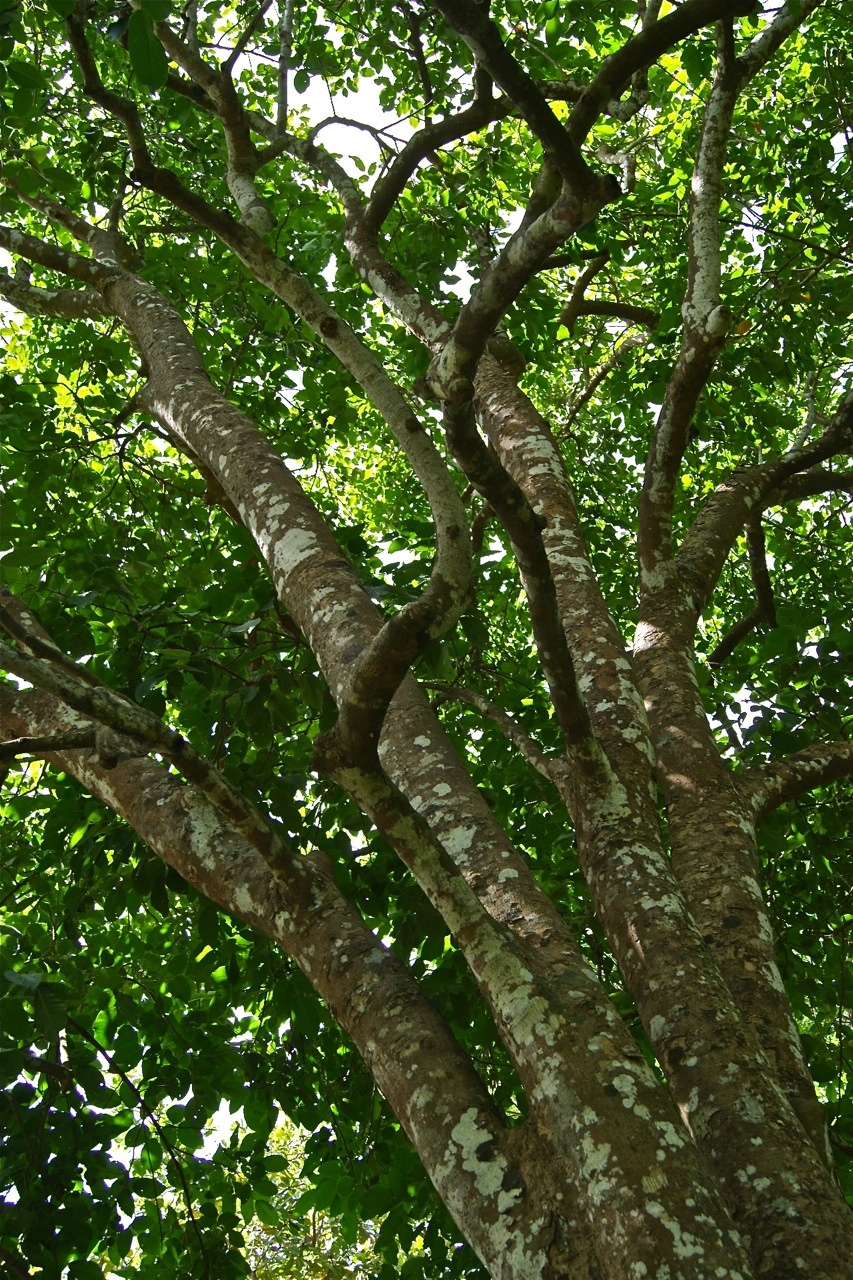 A mature Santol Sandoricum koetjape tree in the Philippines towers 40 to 45 meters high. The wood of this tree is hard and smooth to the touch. It makes good timber. As a boy, I knew that it made the best slingshots!